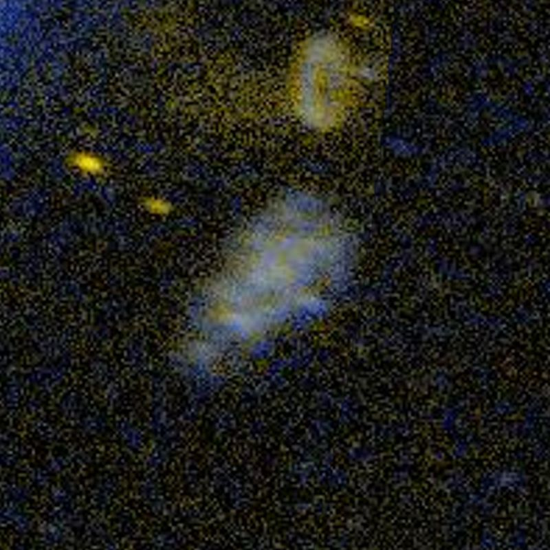 NGC 1234 galaxy by GALEX